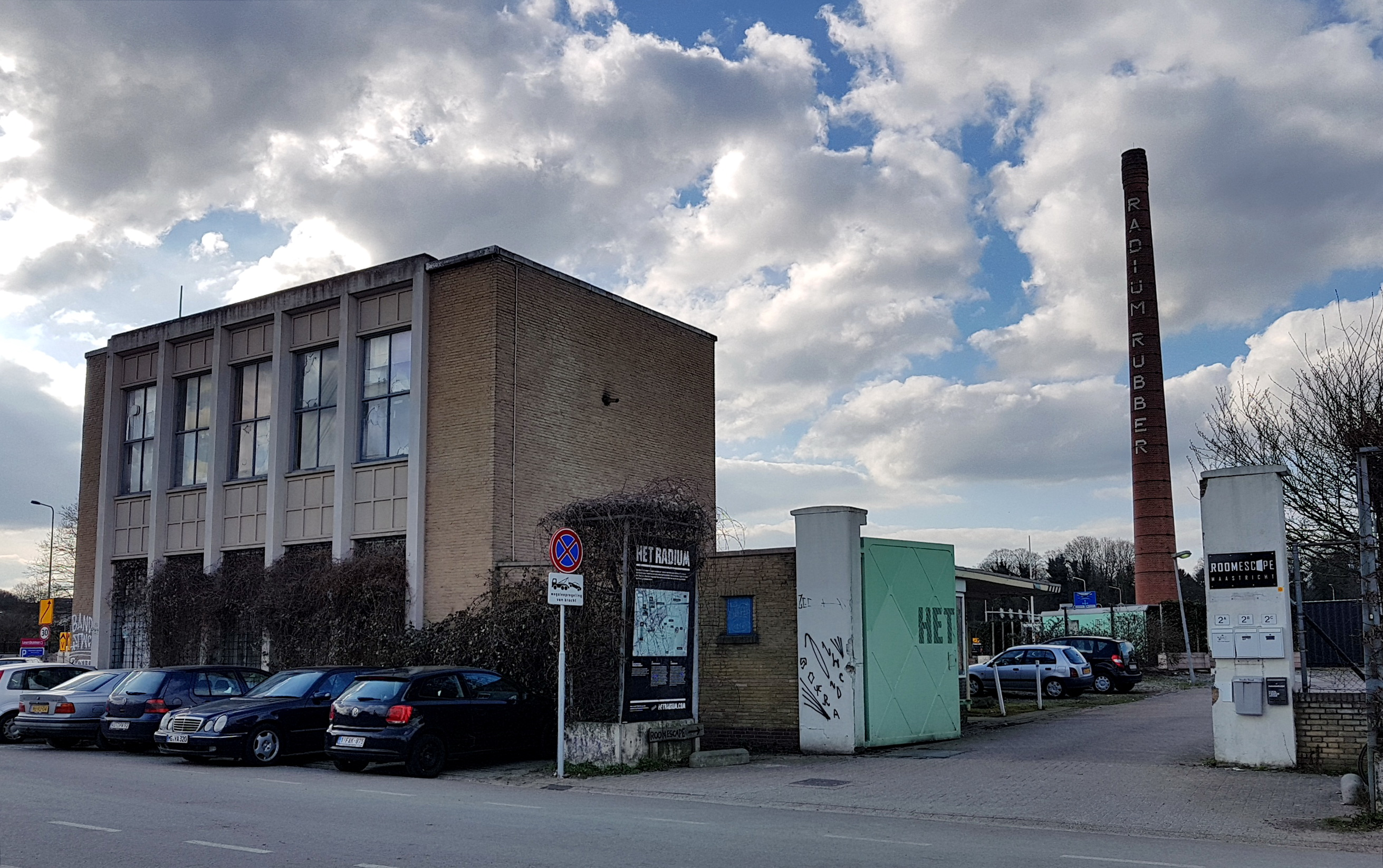 Former offices and chimney of Radium Rubber, now used by several cultural organizations (Het Radium), in Bosscherveld, Maastricht, Netherlands.